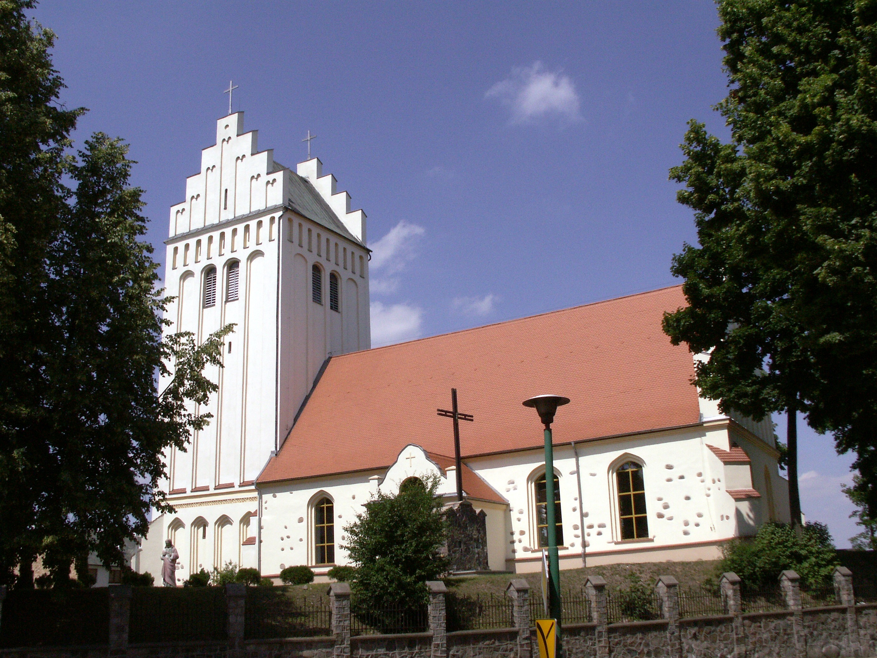 Co-cathedral (Mater Ecclesiae) in Gołdap, Poland